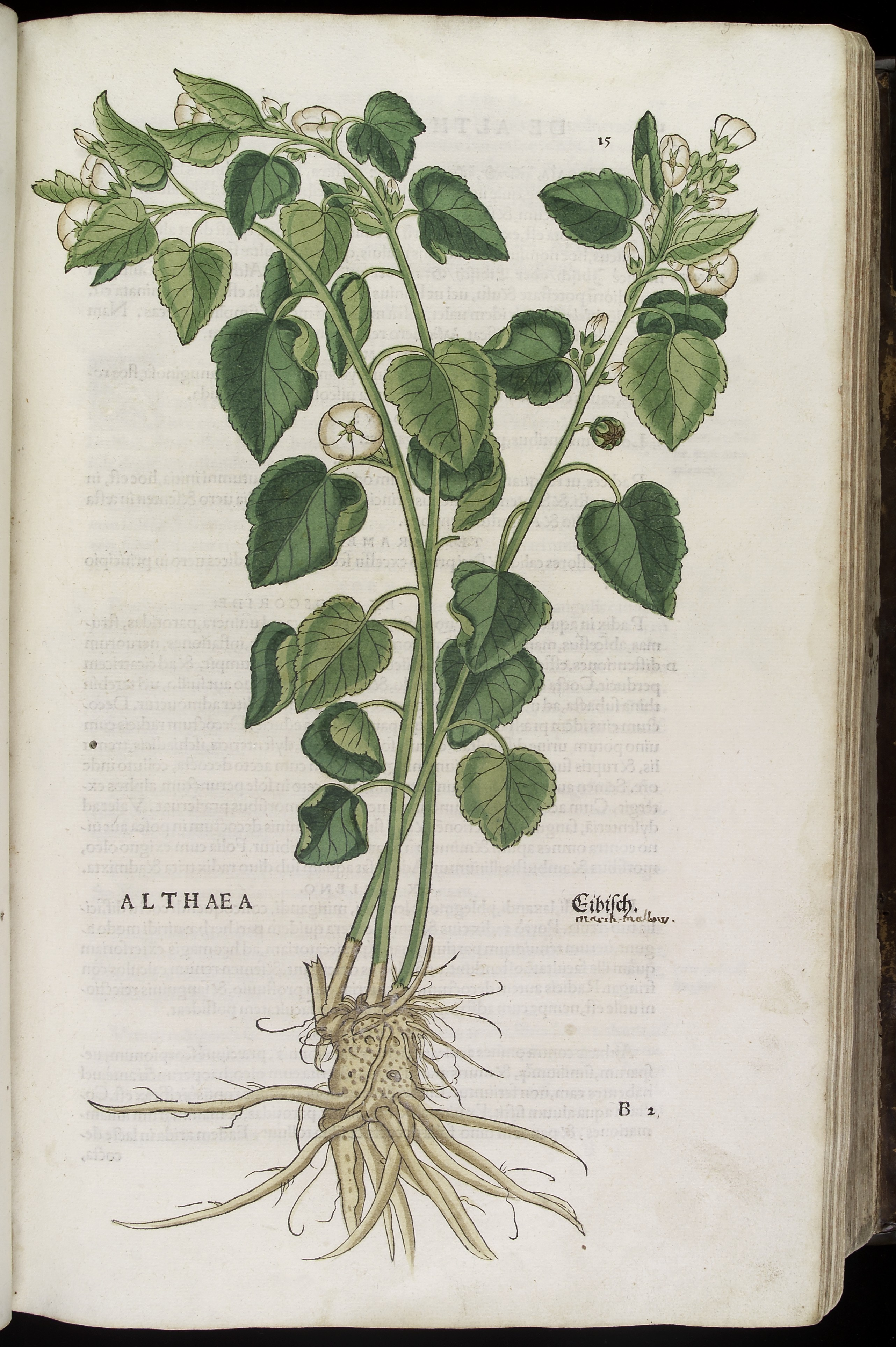 Page of 'De historia stirpivm commentarii insignes ... adiectis eorvndem vivis plvsqvam quingentis imaginibus ... Accessit ... uocum difficilium et obscurarum passim in hoc opere ocurrentium explicatio ...' by Leonhard Fuchs. Plant is entitled 'Althaea' or 'Marshmallow' Rare Books Keywords: Plants; Plant; Botanical; Herbals